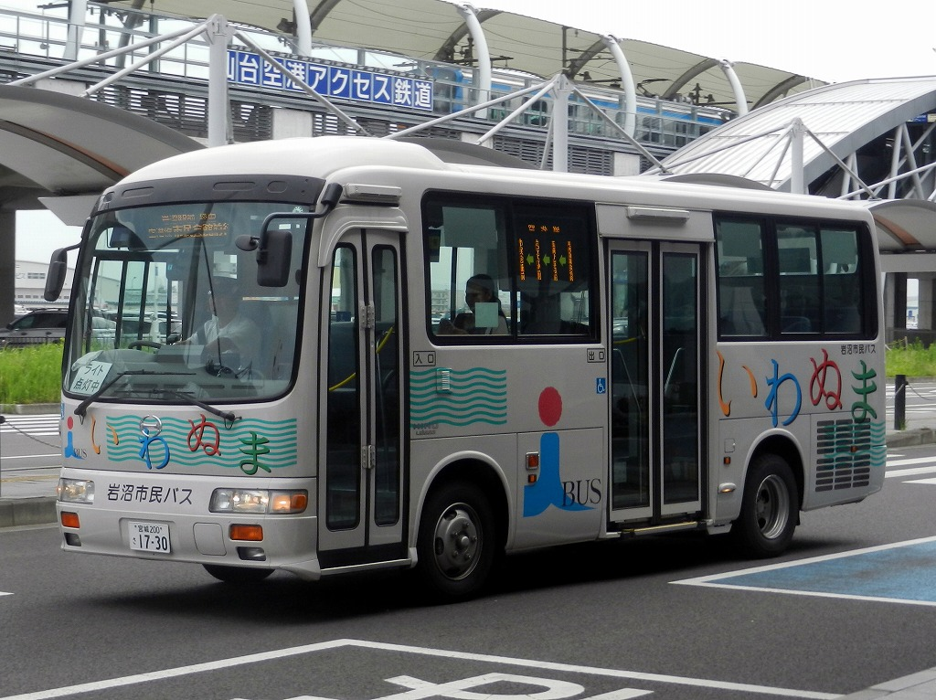 Iwanuma City bus "i-bus" Hino Liesse (BDG-RX6JFEA)